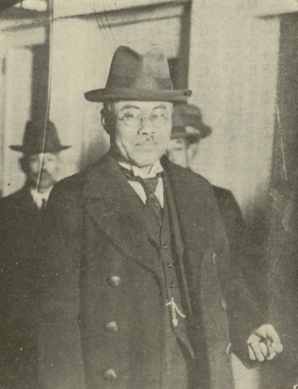 Portrait of Kato Keizaburo (加藤敬三郎, 1873 – 1939)